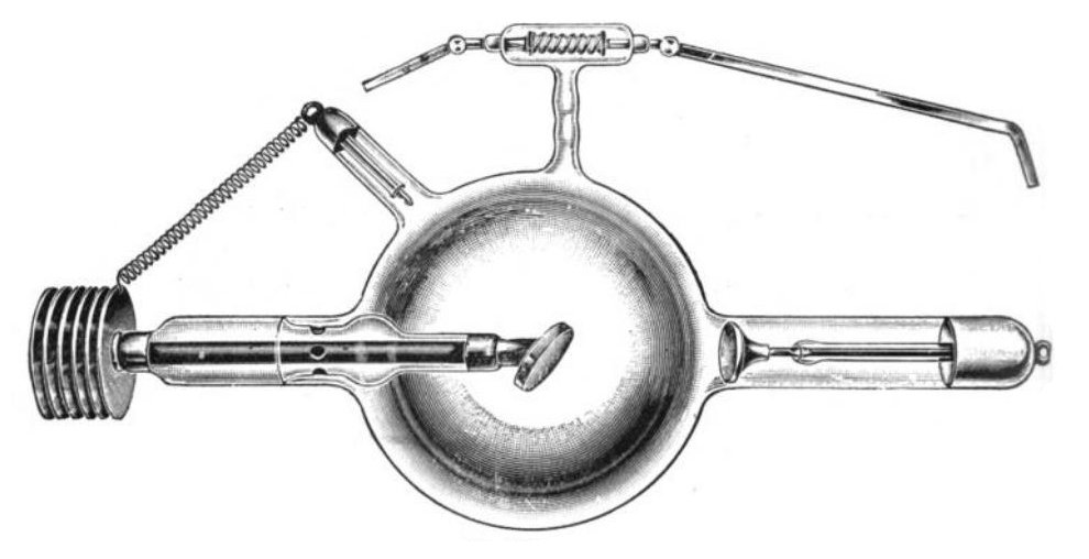 Drawing of a Crookes type x-ray tube made by Alfred Cossor, from the early 1900s. The caption text: 'A Cossor bulb with automatic softening device and fin radiator for cooling anticathode.' Alterations to image: cropped out caption. The electrode on the right is the aluminum cathode, which focuses a beam of electrons on a small (~1 mm) spot on the angled platinum anode target, called the 'anticathode', in the center of the bulb, creating x-rays. The anticathode is angled so the x-rays are radiated downwards, passing out through the glass side wall of the tube. The electrode at the 10 o'clock position is called the auxiliary anode. The sausage-shaped device at the top is an 'automatic softener' to control the pressure in the tube. Crookes type tubes required some gas in the tube to operate, but with time the residual gas was absorbed and the vacuum in the tube increased, requiring a higher potential to operate, generating 'harder' x-rays, until eventually the tube stopped operating. The 'softener' prevents this. When the pressure drops and the voltage across the tube increases, the anode potential arcs across the spark gap to the softener electrode, and the current heats the helical sleeve in the softener, which releases gas, raising the pressure in the tube. Alfred Charles Cossor's workshop in Clerkenwill, London was at that time the only British manufacturer of Crookes x-ray tubes. These cold cathode x-ray tubes were used until the 1920s.